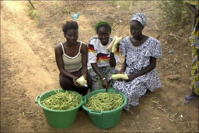 Caption: Roadside vendors of cowpea (shelled and whole pods), near Thies, Senegal. Credit: J. Ehlers, UC Riverside. Usage Restrictions: None News release: UCR researchers awarded nearly $1.7M to develop improved cowpea varieties on web at Contact:Contact: Iqbal Pittalwala 951-827-6050 University of California - Riverside